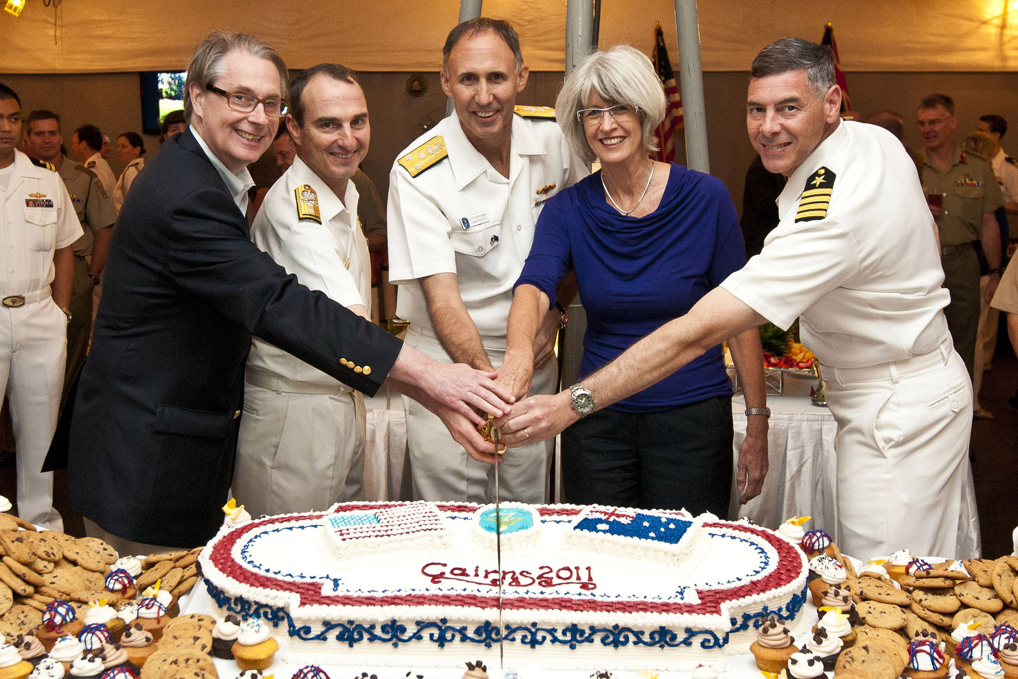 CAIRNS, Australia (July 27, 2011) - From left, the Honorable Jason P. Hyland, Deputy Chief of Mission to U.S. Embassy Canberra; Royal Australian Navy Rear Adm. David Johnston; Vice Adm. Scott Van Buskirk, commander of U.S. 7th Fleet; Val Schier, mayor of Cairns Regional Council; and Capt. Daniel C. Grieco, commanding officer of the flagship USS Blue Ridge (LCC 19), cut a ceremonial cake at a Big Top reception on the flight deck aboard Blue Ridge, in celebration of the exercise Talisman Sabre 2011 in Cairns, Queensland, Australia. Talisman Sabre 2011 is a bilateral exercise designed to train Australian and U.S. Forces in planning and conducting Combined Task Force operations in order to improve U.S./Australian combat readiness and interoperability. (U.S. Navy photo by Mass Communication Specialist 2nd Class Kenneth R. Hendrix)